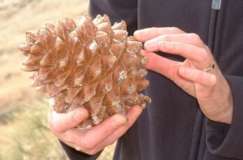 Cone of Foothill pine from Mount Diablo State Park, California.